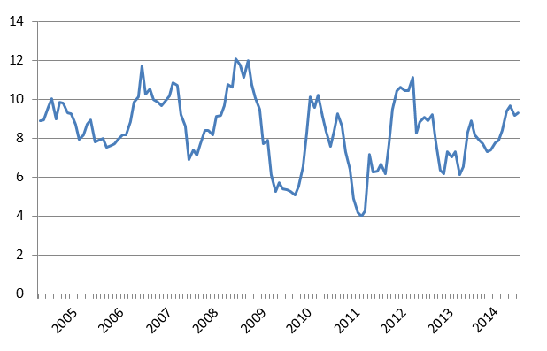 Inflation of Turkey of the last 10 years (2004-2014). IMF Data and Statistics